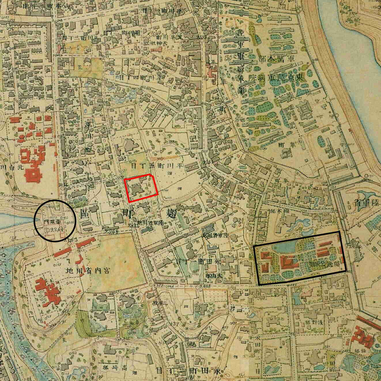 Detail of an map of Tokyo 1884 with German Embassy (black rectangle, OAG (red rectangle) ans Akasaka Mitsuke (black circle)